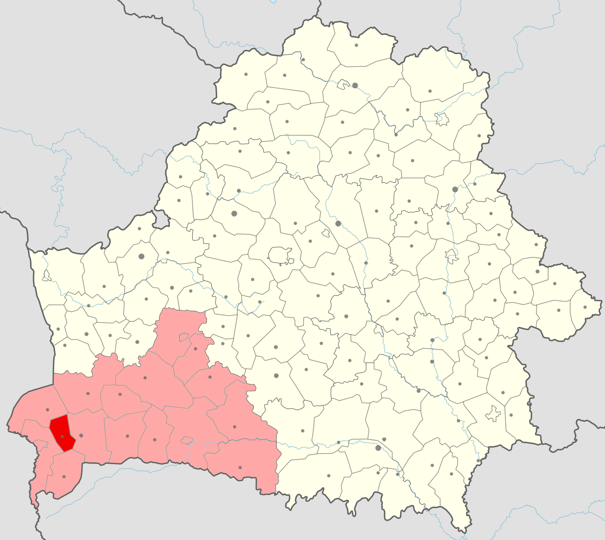 Location of Žabinkaŭski rajon (red) in Bresckaja voblasć (light red) in Belarus.